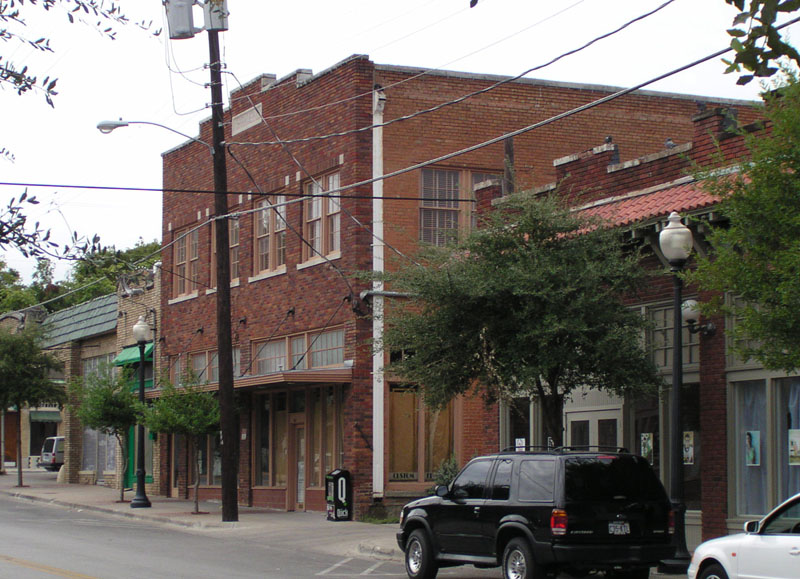 The Bishop Arts District in the Oak Cliff area of Dallas, Texas, USA.